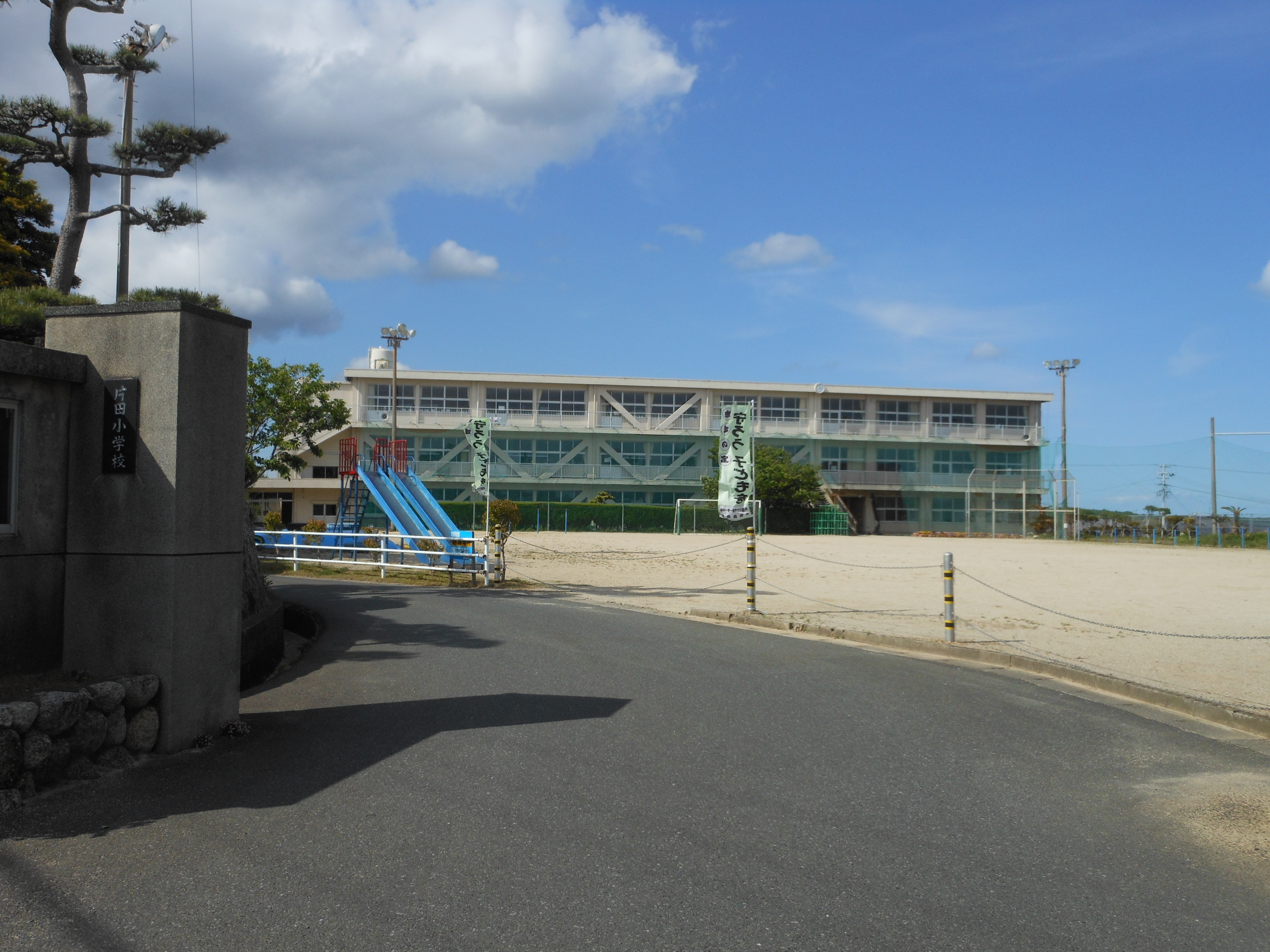 This is the Shima city Katada Elementary School, which is located in Mie, Japan.